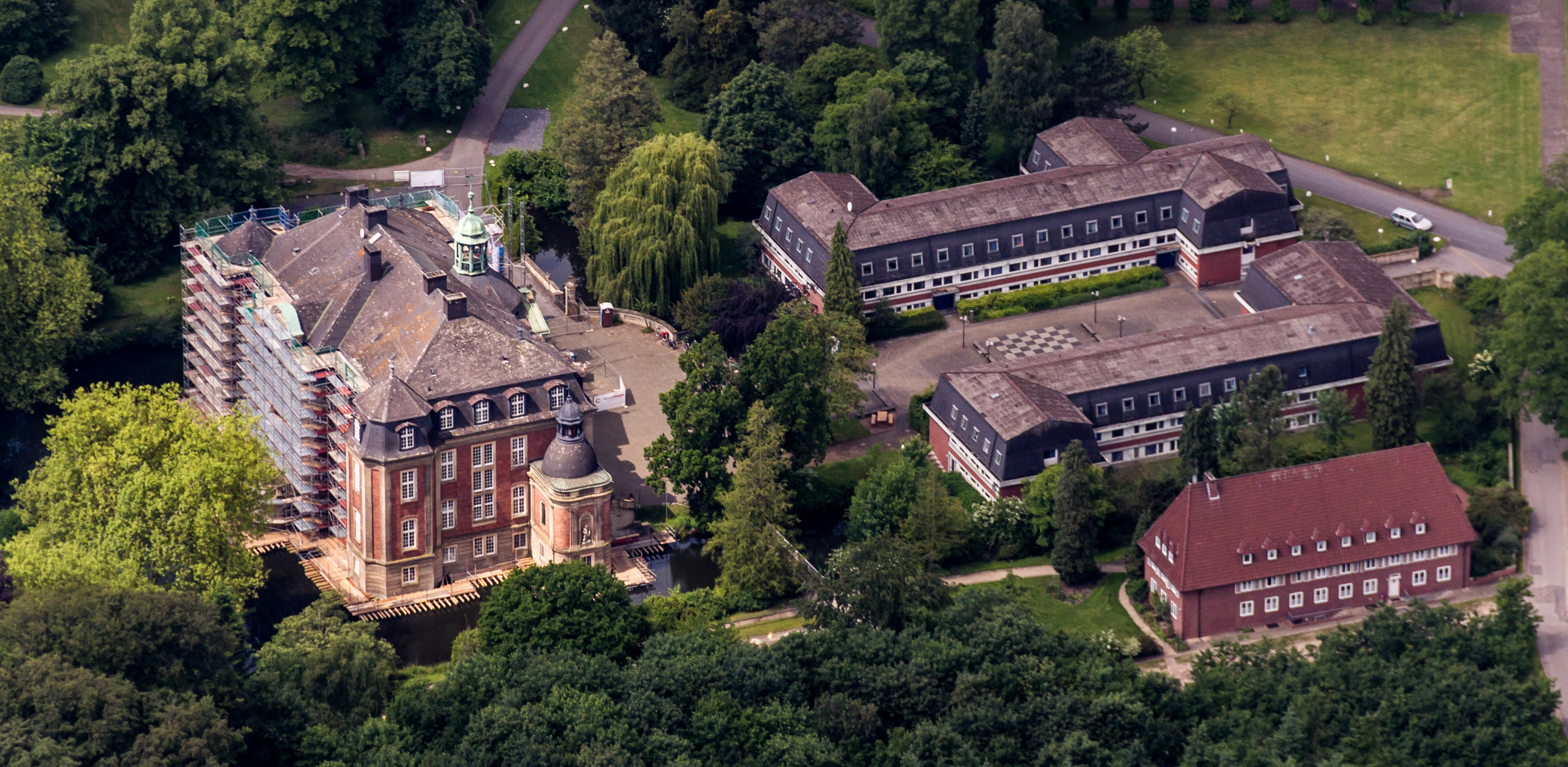 Loburg Castle, Ostbevern, North Rhine-Westphalia, Germany This image shows a heritage building in Germany, located in the North Rhine-Westphalian city Ostbevern (no. 60).